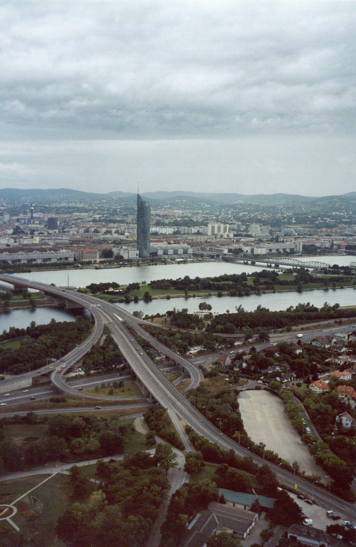 Austria, Vienna, Danube